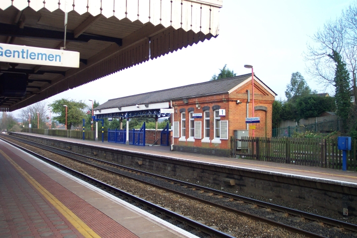 Pangbourne railway station platforms; note fast lines passing behind platform 1. For more information see the Wikipedia article Pangbourne railway station.